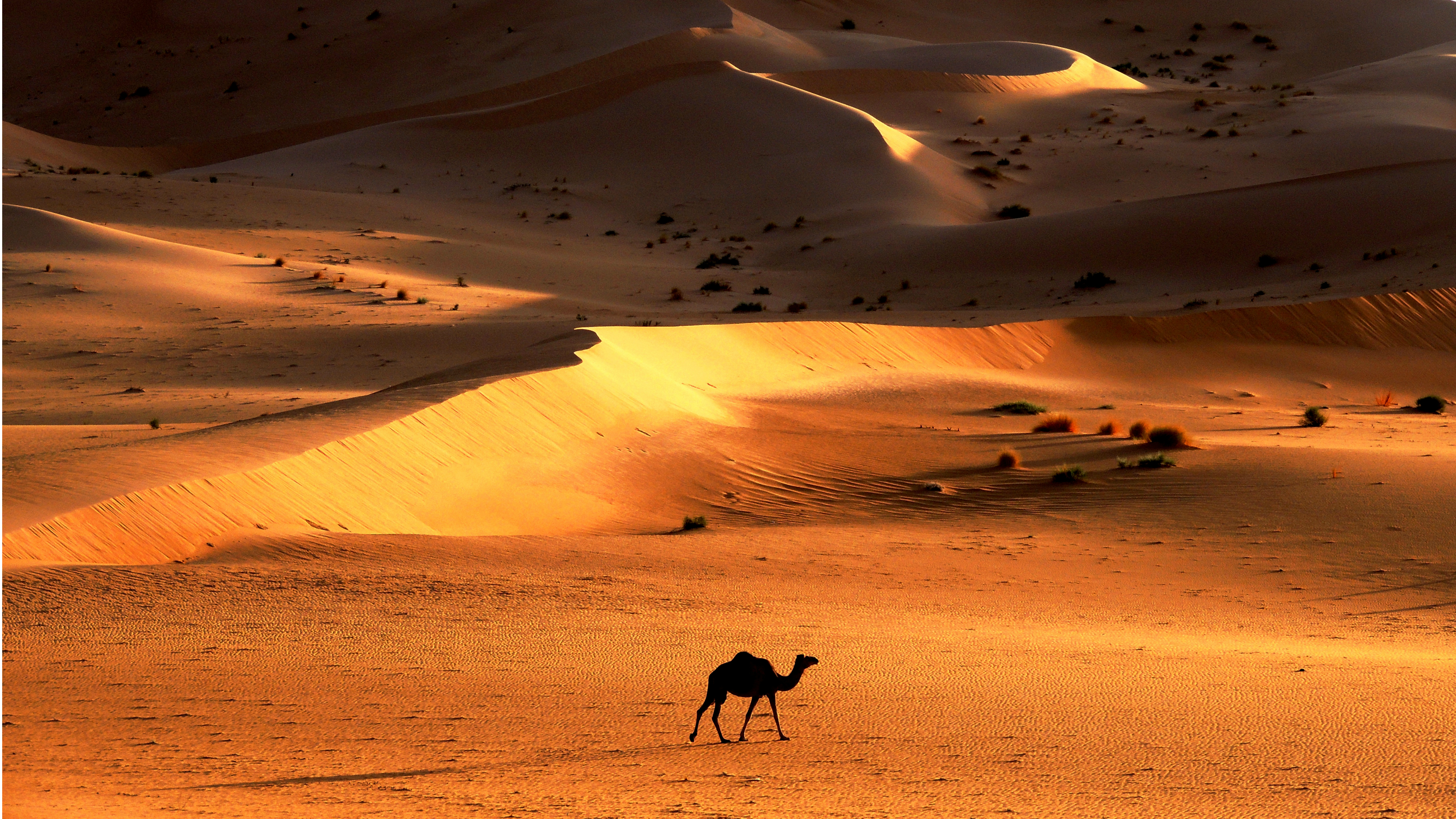 The photo was taken in the south east of the Algerian desert in the Grand Erg Oriental